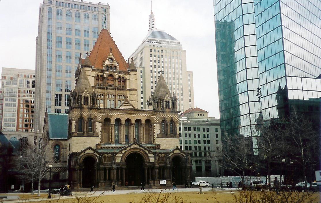 Trinity Church, in Copley Square, Boston. The glass building to the right is the John Hancock Tower